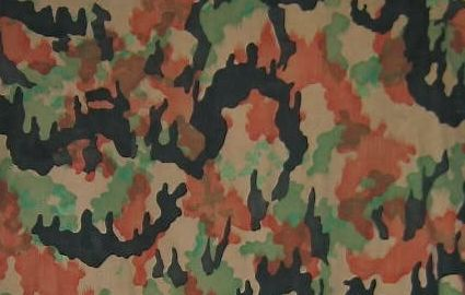 Bundeswehr-Leibermuster pattern (1955)